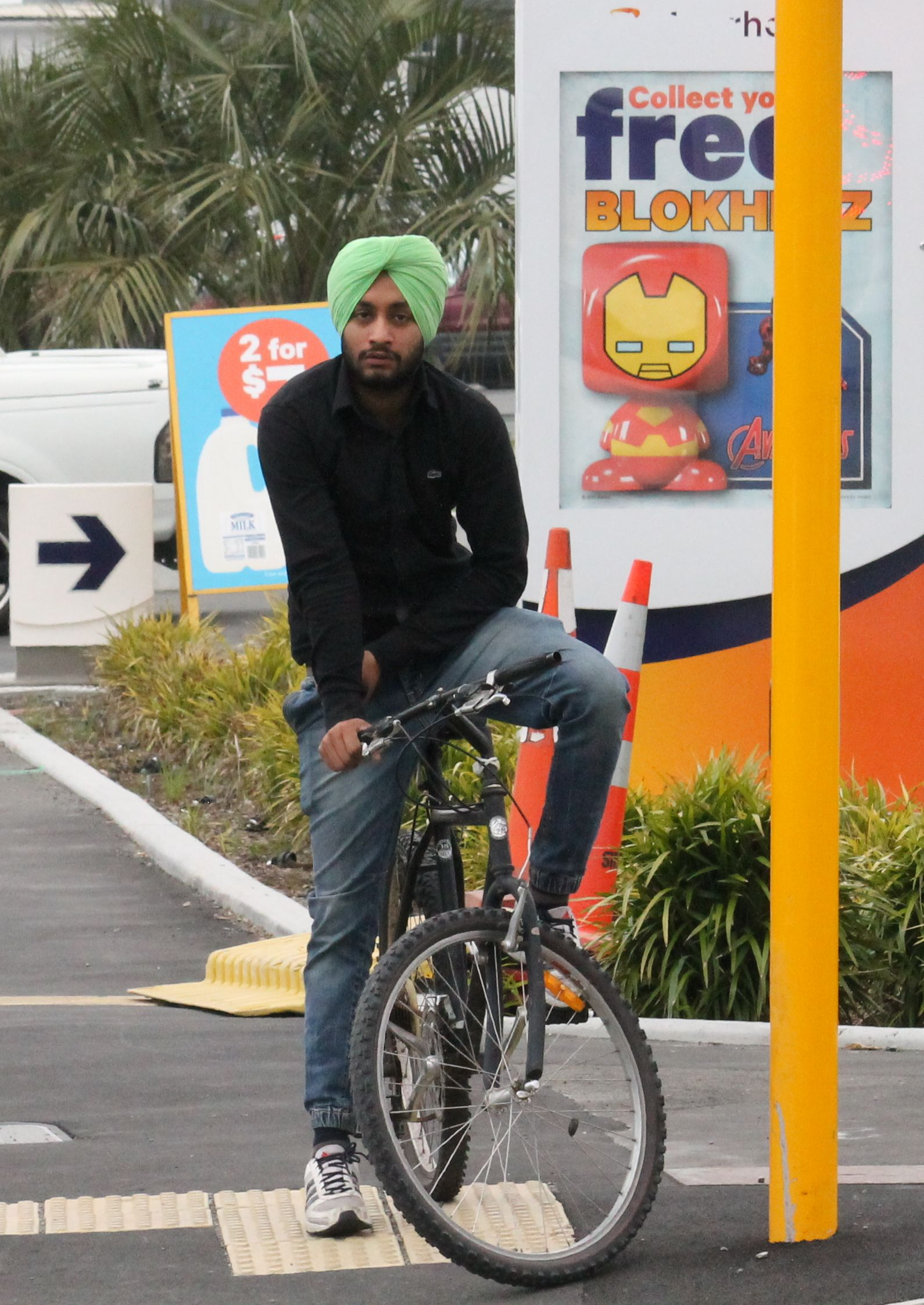 Sikh in Christchurch wearing a turban; followers of this religion wearing a turban are exempt from having to wear a bicycle helmet